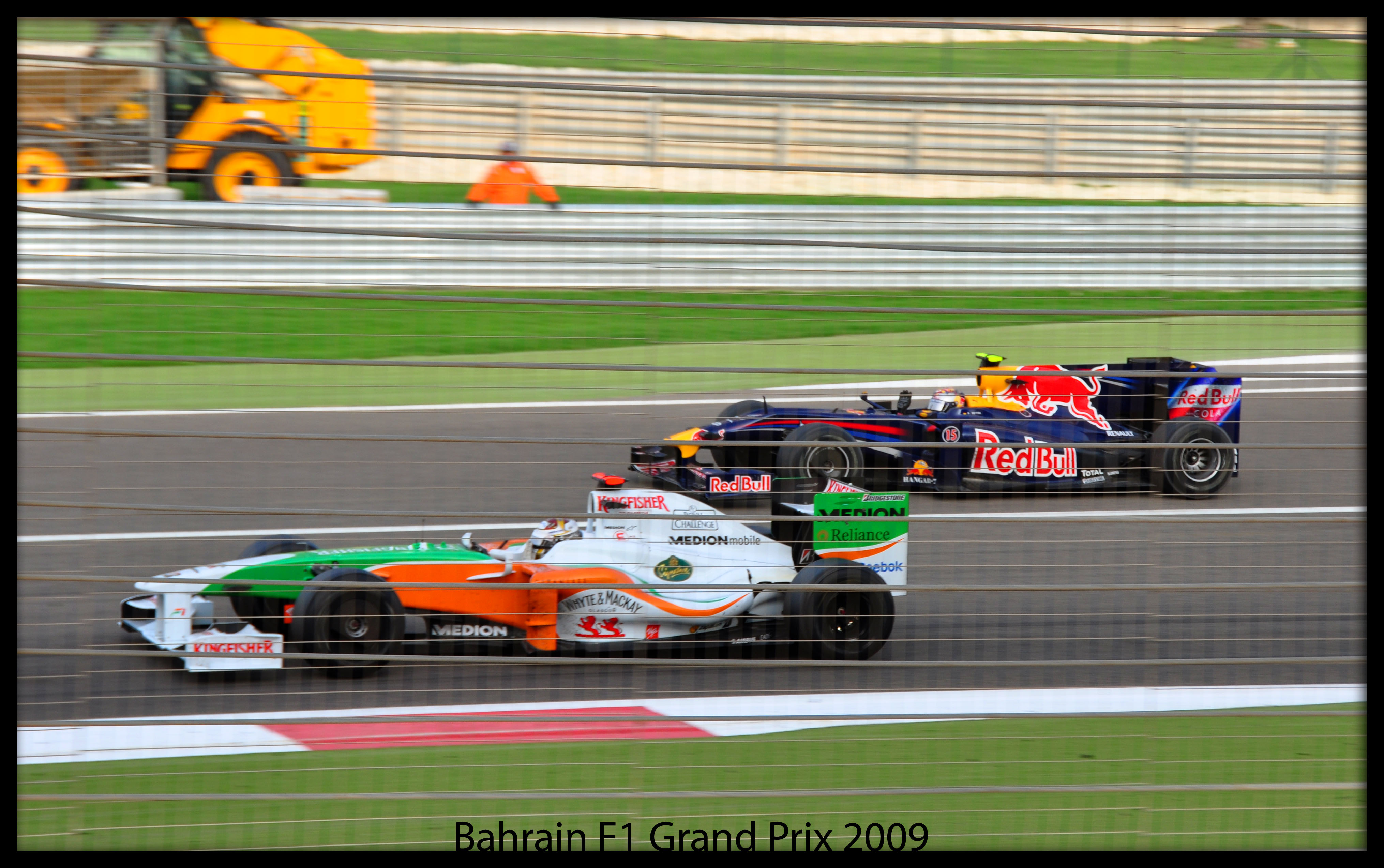 Gulf Air Bahrain F1 Grand Prix 2009 26th April 2009 Round 4 Bahrain International Circuit Sakhir Bahrain.